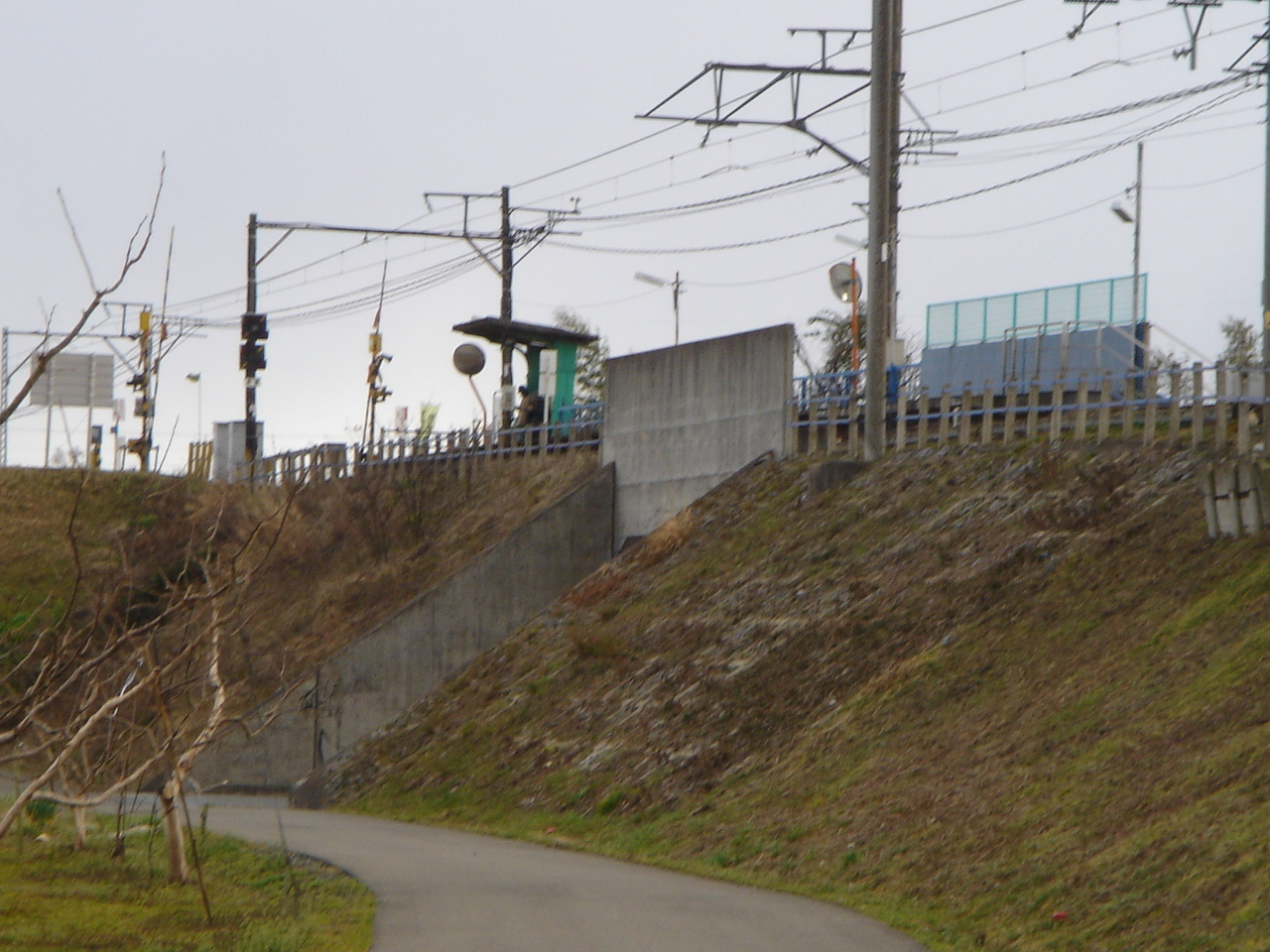 Shimokata Station on Meitetsu Ibi Line (now abolished) in Ono Town, Gifu Prefecture, Japan